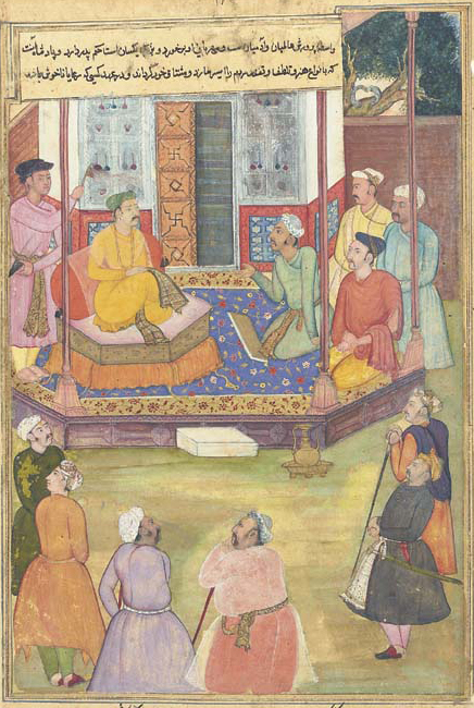 "AN ILLUSTRATION FROM THE 1598 RAZMNAMA: BHISMA AND YUDHISTHIRA IN DISCUSSION, ASCRIBED TO DA'UD, MUGHAL INDIA, 1598. Black ink with colour wash heightened with gold on paper, 1 line inscription at foot of page in black nasta'liq, 2 ll. of text above, reverse with 27 ll. of small black nasta'liq within text panel, some flaking and very slight worming, mostly confined to margins. Folio 10¾ x 6 1/8in. (27 x 15.5cm.); painting 7 7/8 x 4¼in. (20 x 11cm.).